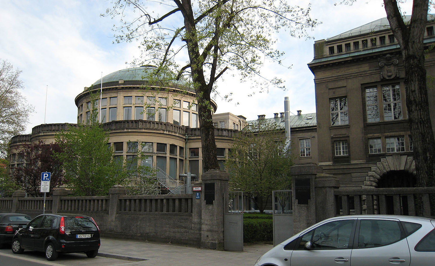 Anatomical Institute, Munich